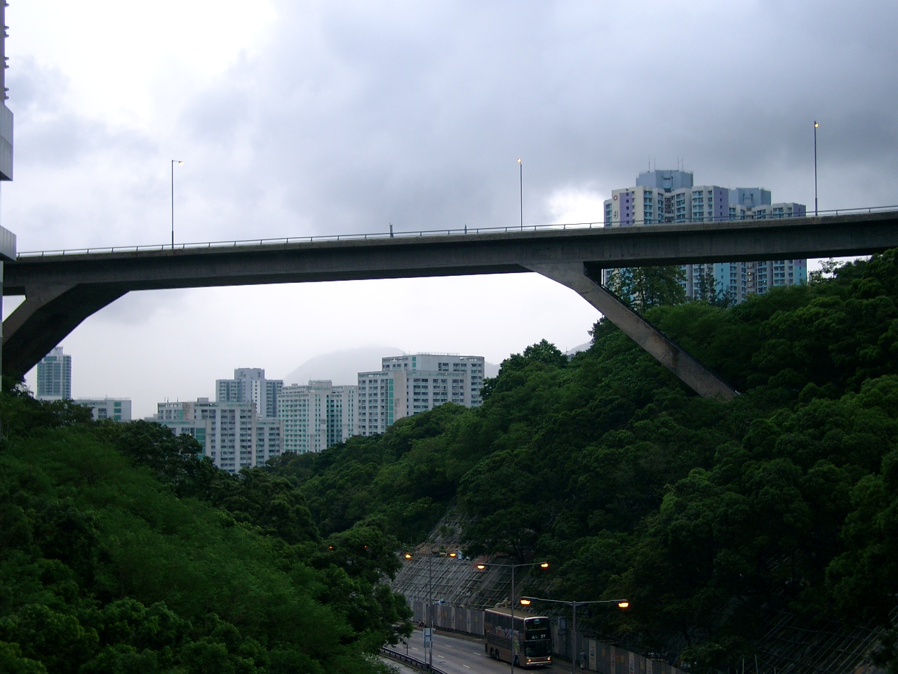 This is the flyover of New Clear Water Bay Road in Hong Kong